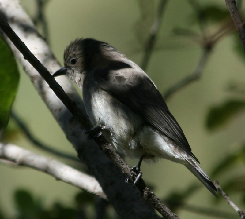 Wahlberg's Honeyguide or Brown-backed Honeybird (Prodotiscus regulus). Location: Cavern Resort, KwaZulu-Natal Drakensberg, South Africa. 6 July 2007.